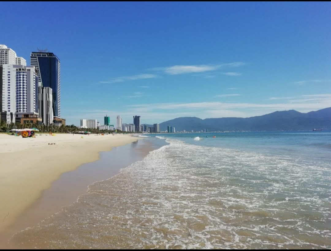 Đà Nẵng